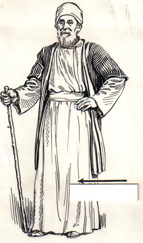 line art drawing of caftan.